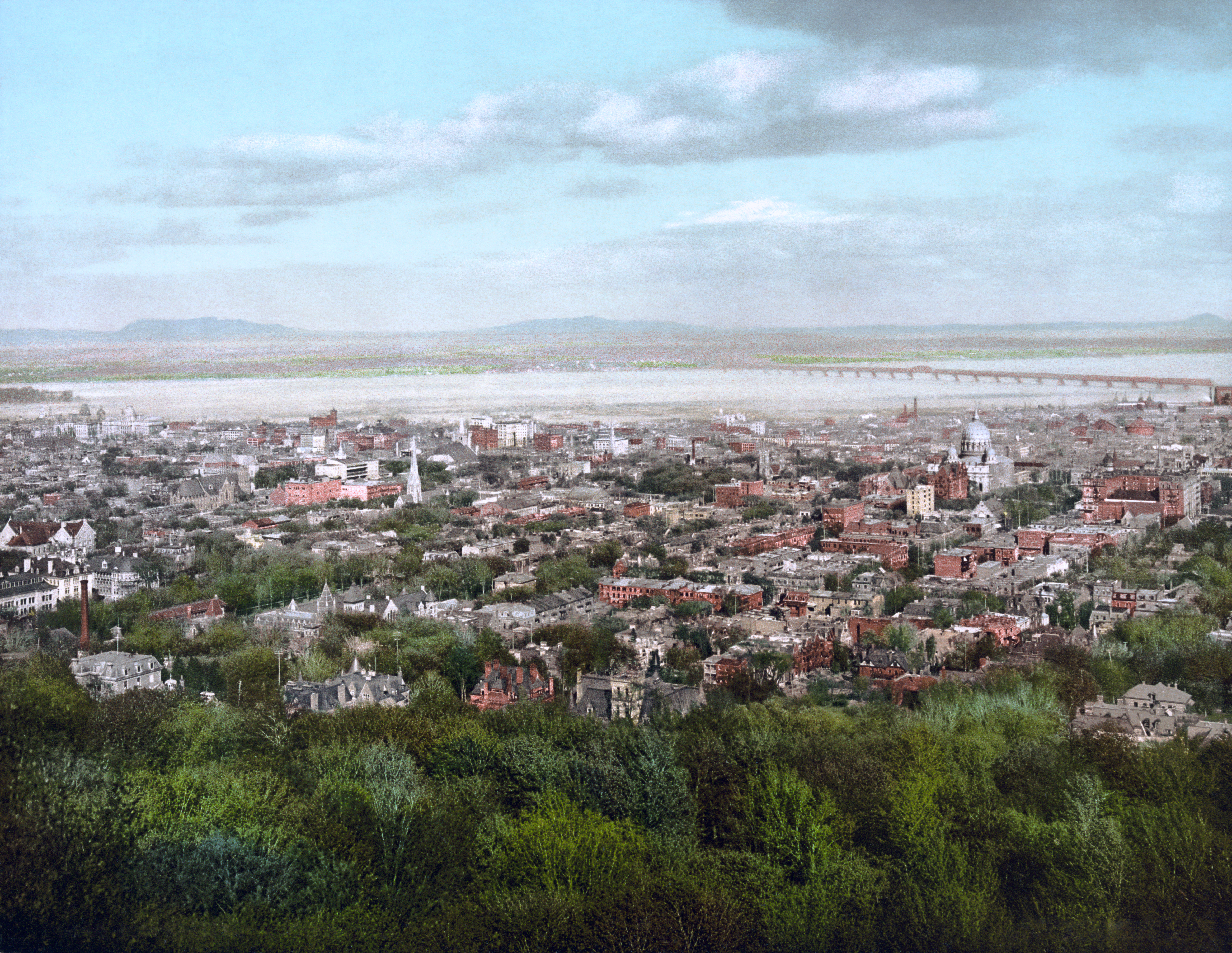 Montreal from Mount Royal. Detroit Publishing Co. no. "53860" 1902